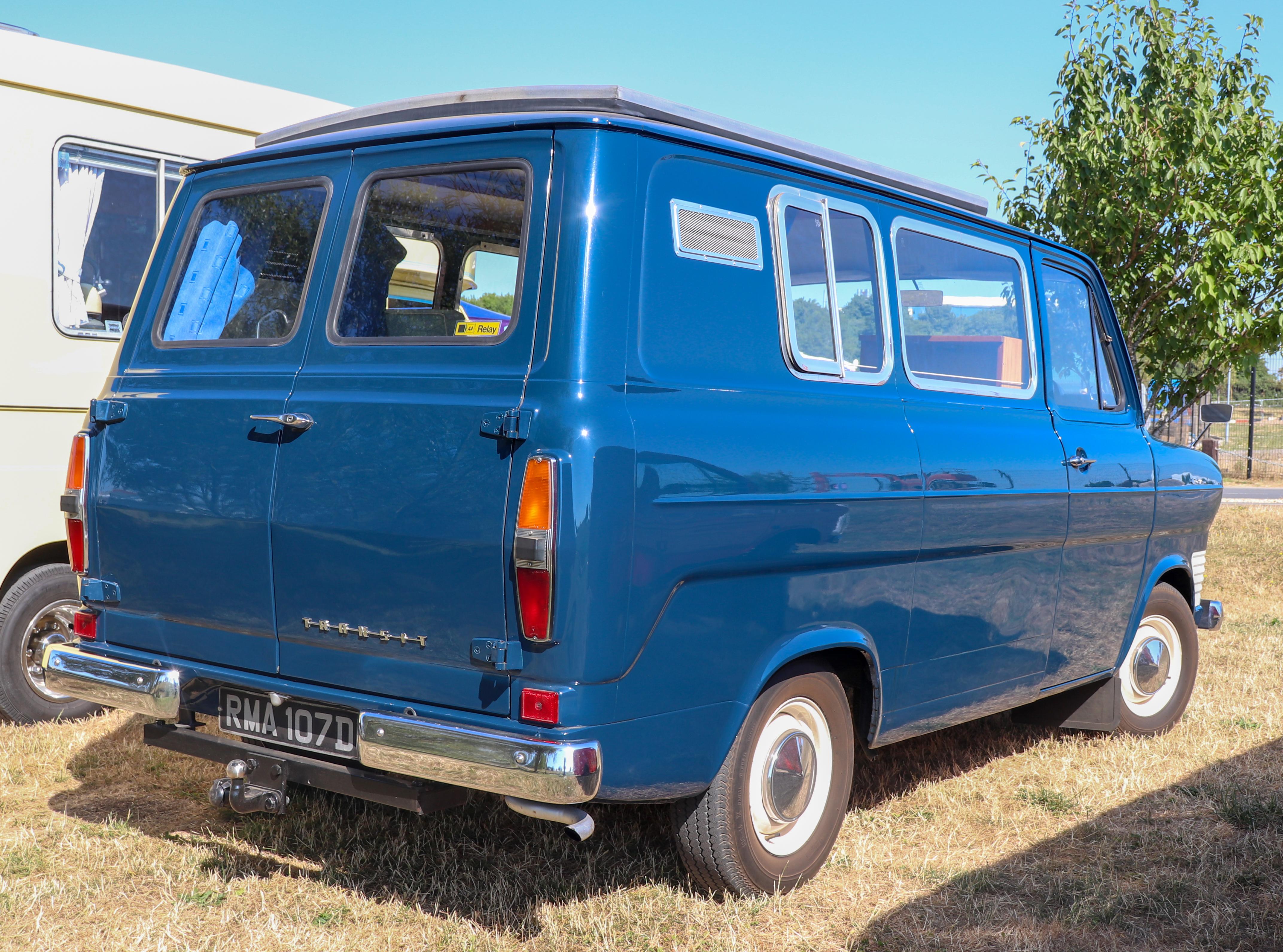 1966 Ford Transit Camper 1.7 Rear Taken at the British Motor Museum Old Ford Rally 2018, Gaydon